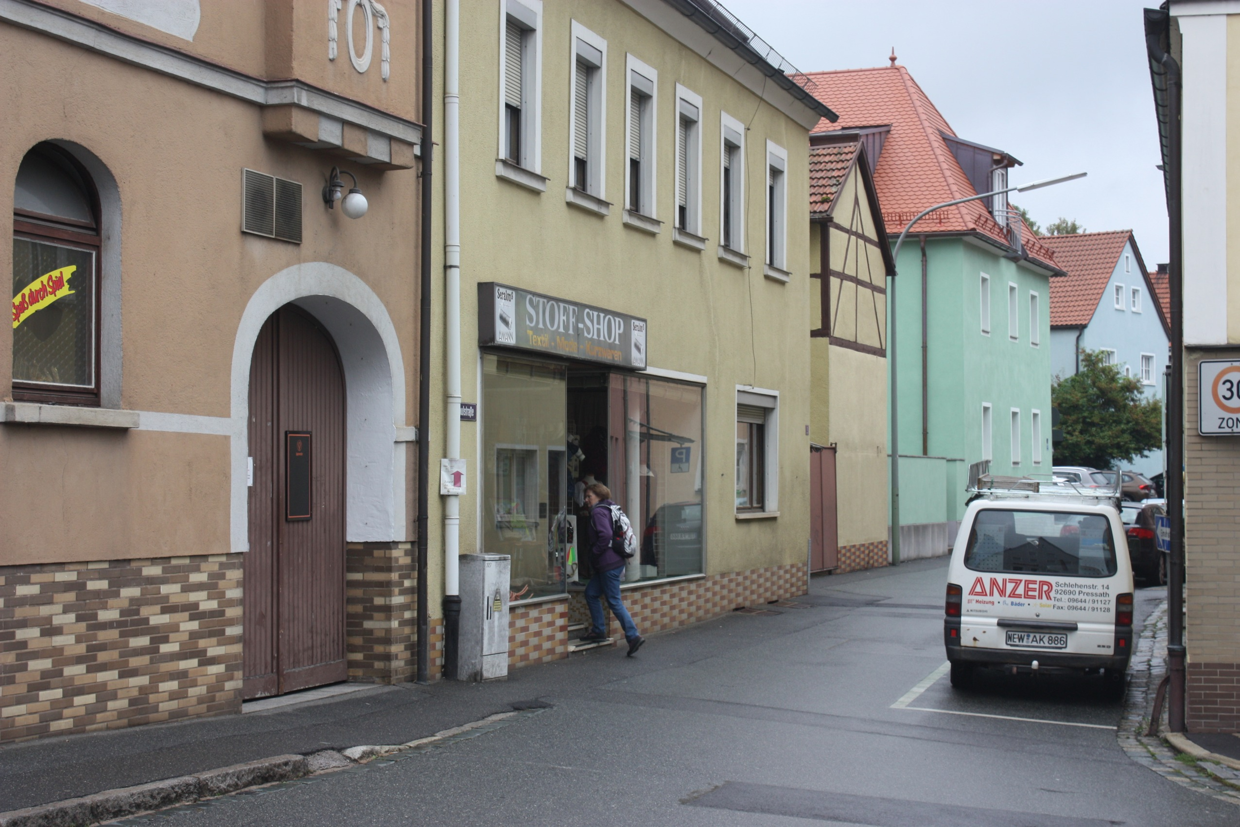 Pressath, the western part of the Schulstraße